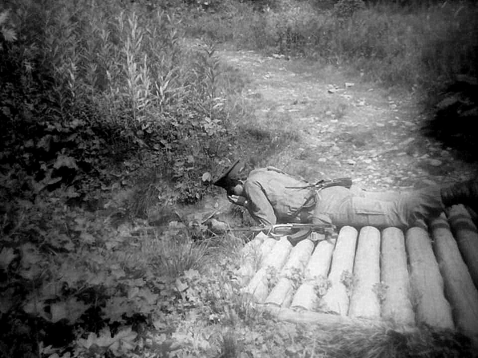 WOP post in Zawoja